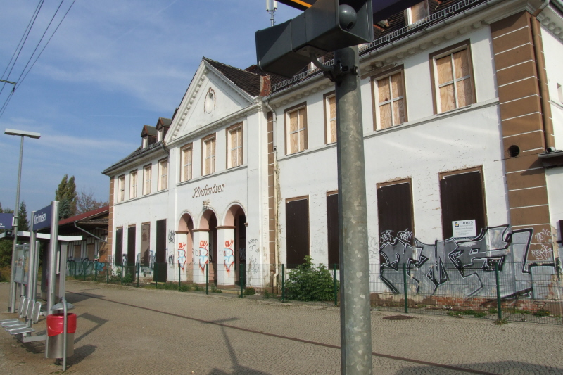 Railway Station Kirchmöser